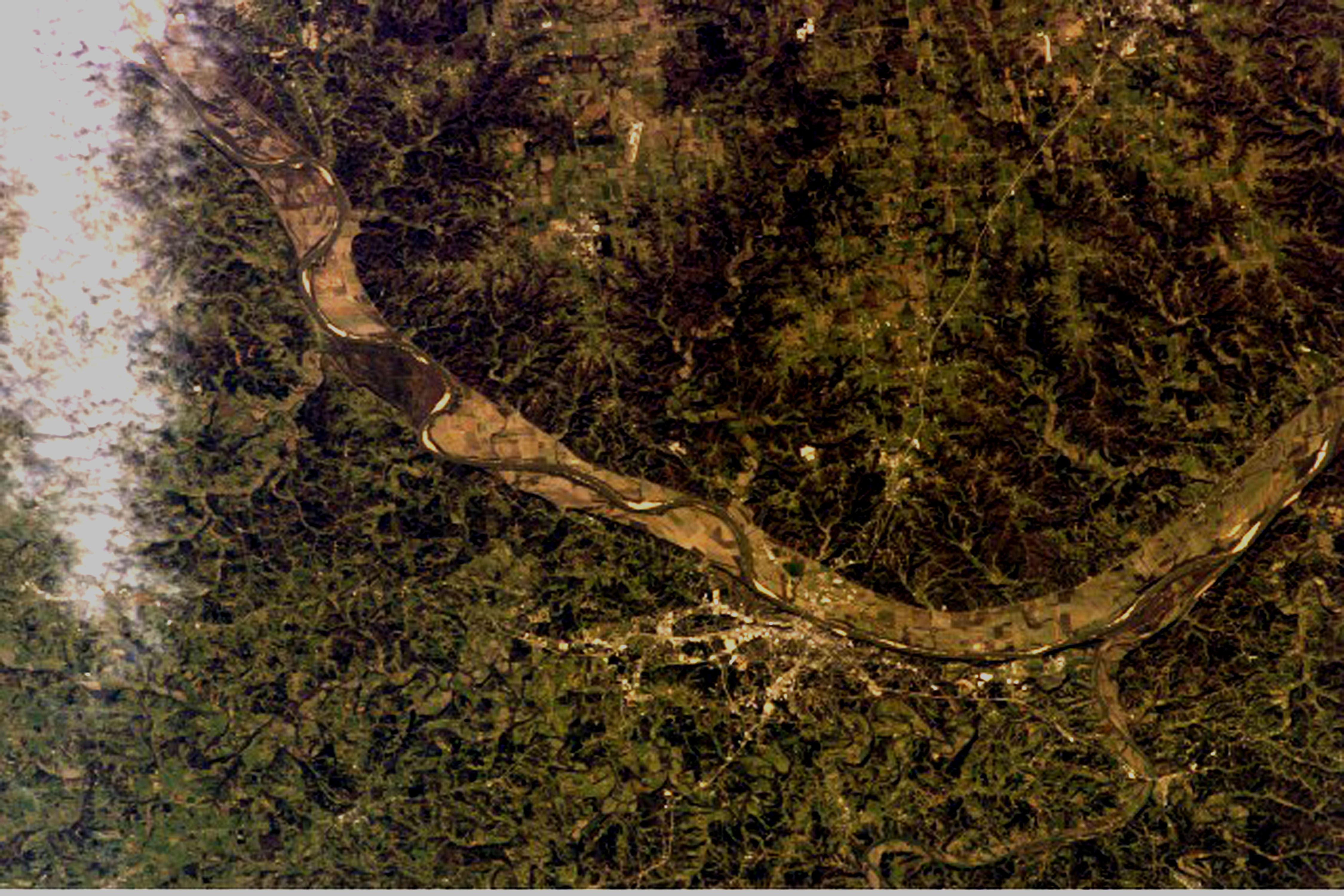 Astronaut Photography of Jefferson City Missouri taken from the International Space Station (ISS)